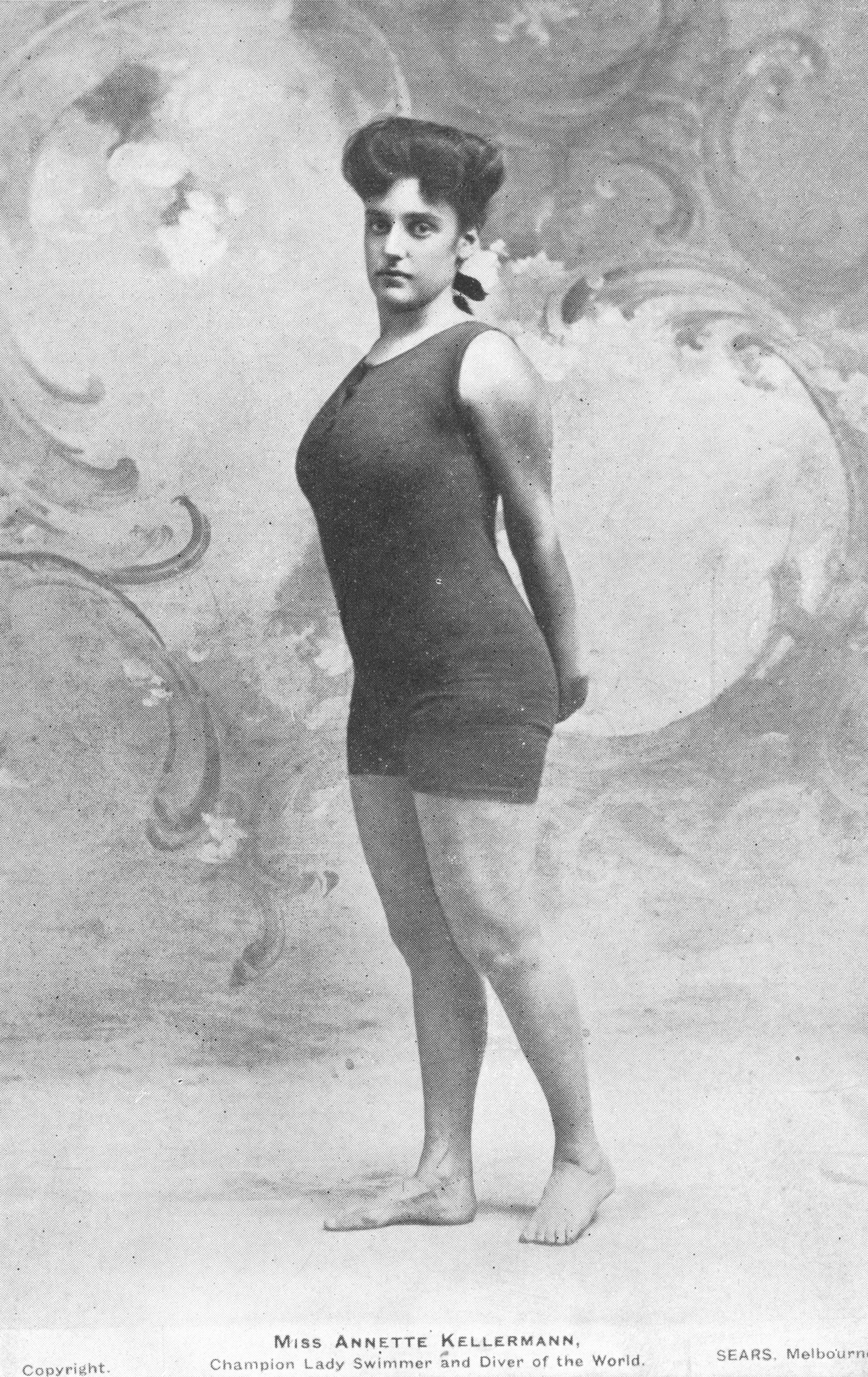 Annette Kellerman, c. 1903 - 1913. Publicity photo in her self-designed swimwear, considered rather daring at the time.